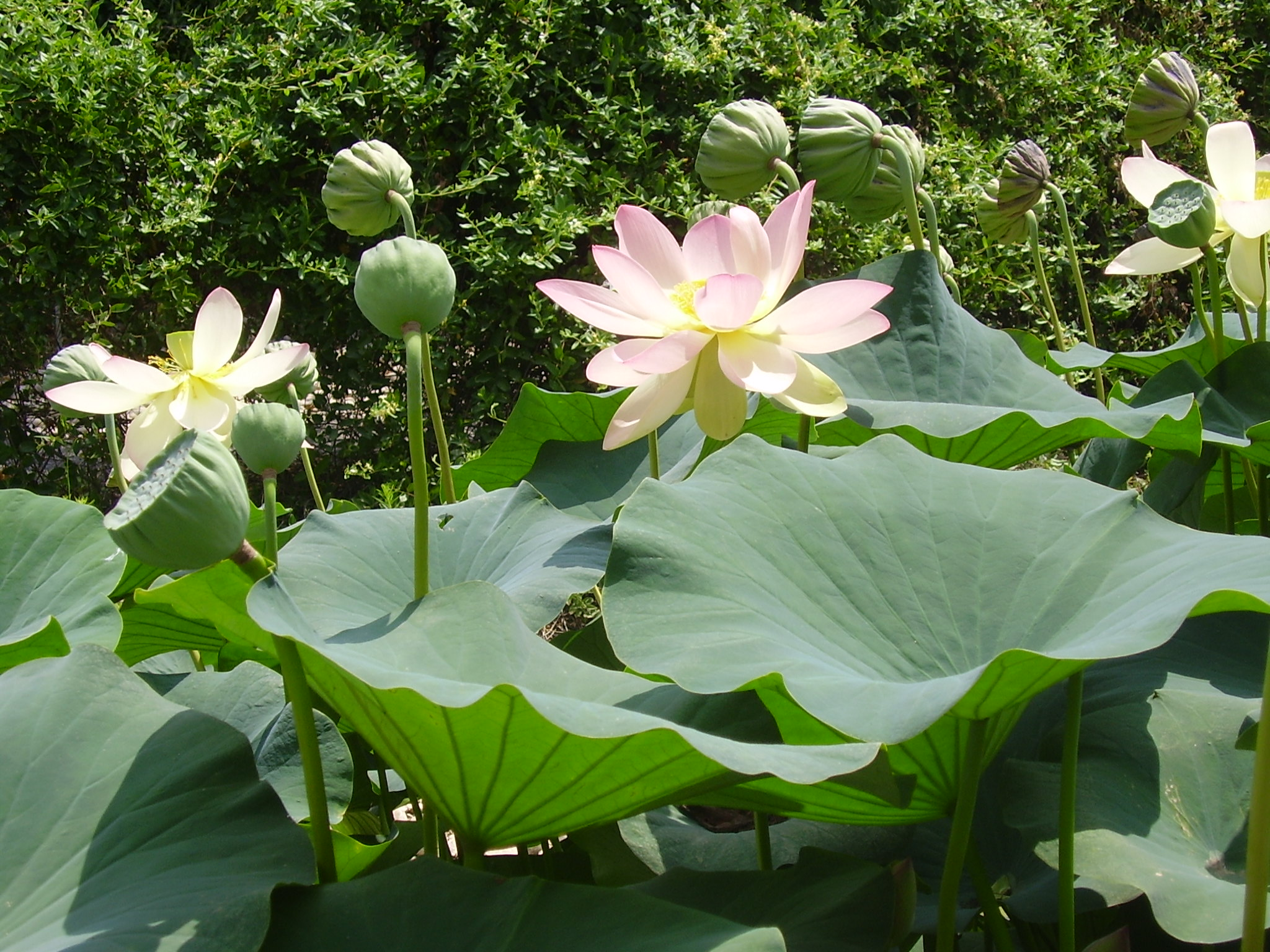 lotus blossom in utopia park